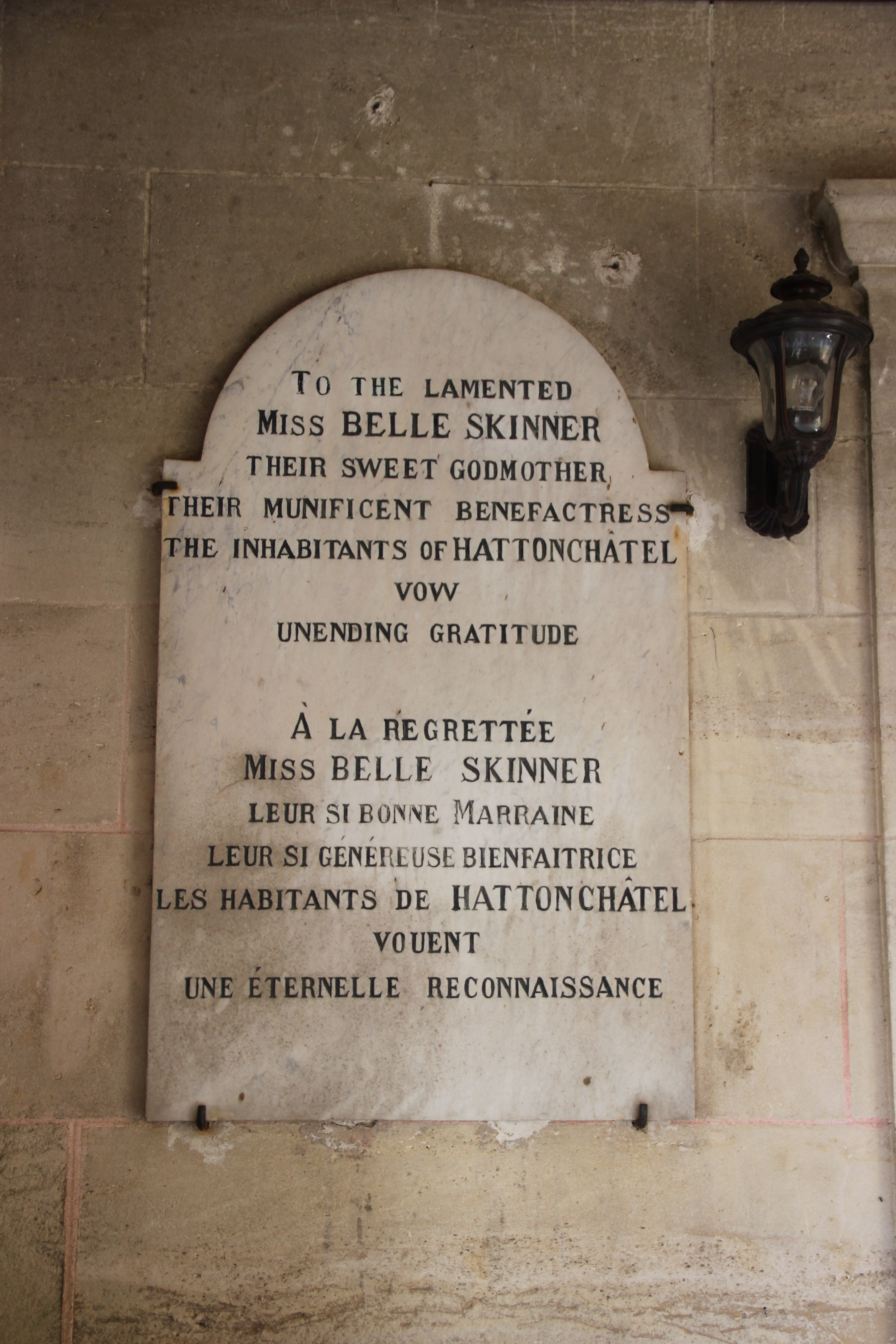 Plaque for Belle Skinner, the benefactress of the village.